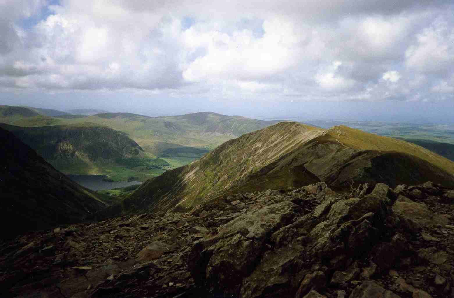 Looking along the ridge from Hopegill Head to Whiteside. The east top is visible midway along Personal photograph taken by Mick Knapton in August 1988